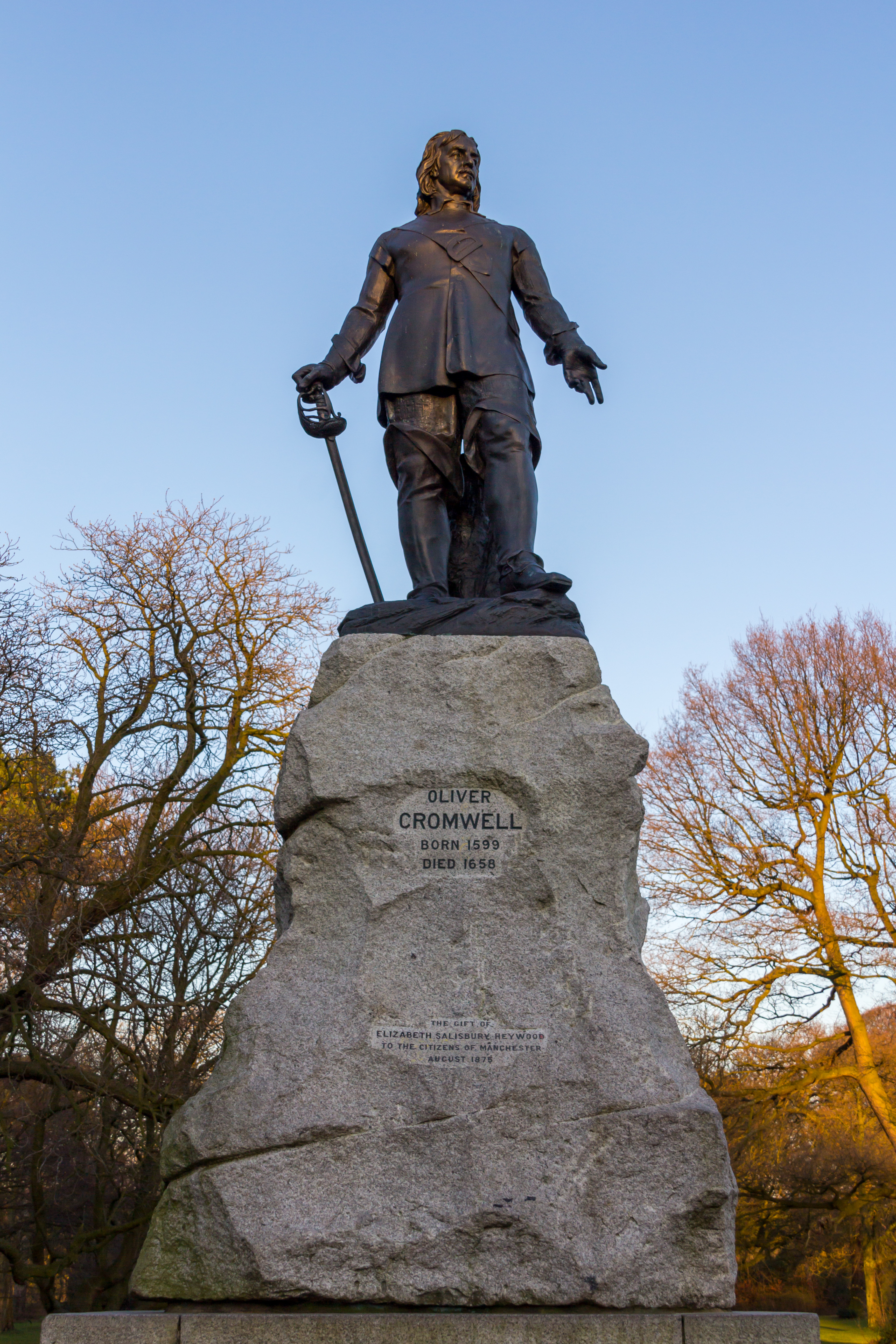 Oliver Cromwell statue, Wythenshawe Park, UK, March 2016.